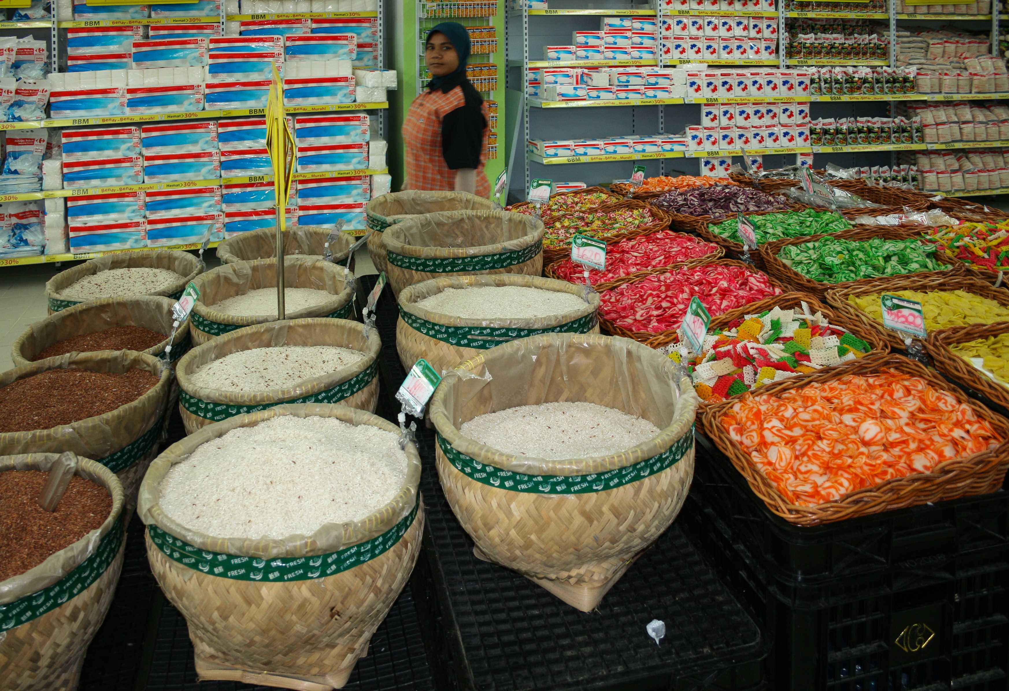 Goods in a hypermarket, Batam, Indonesia